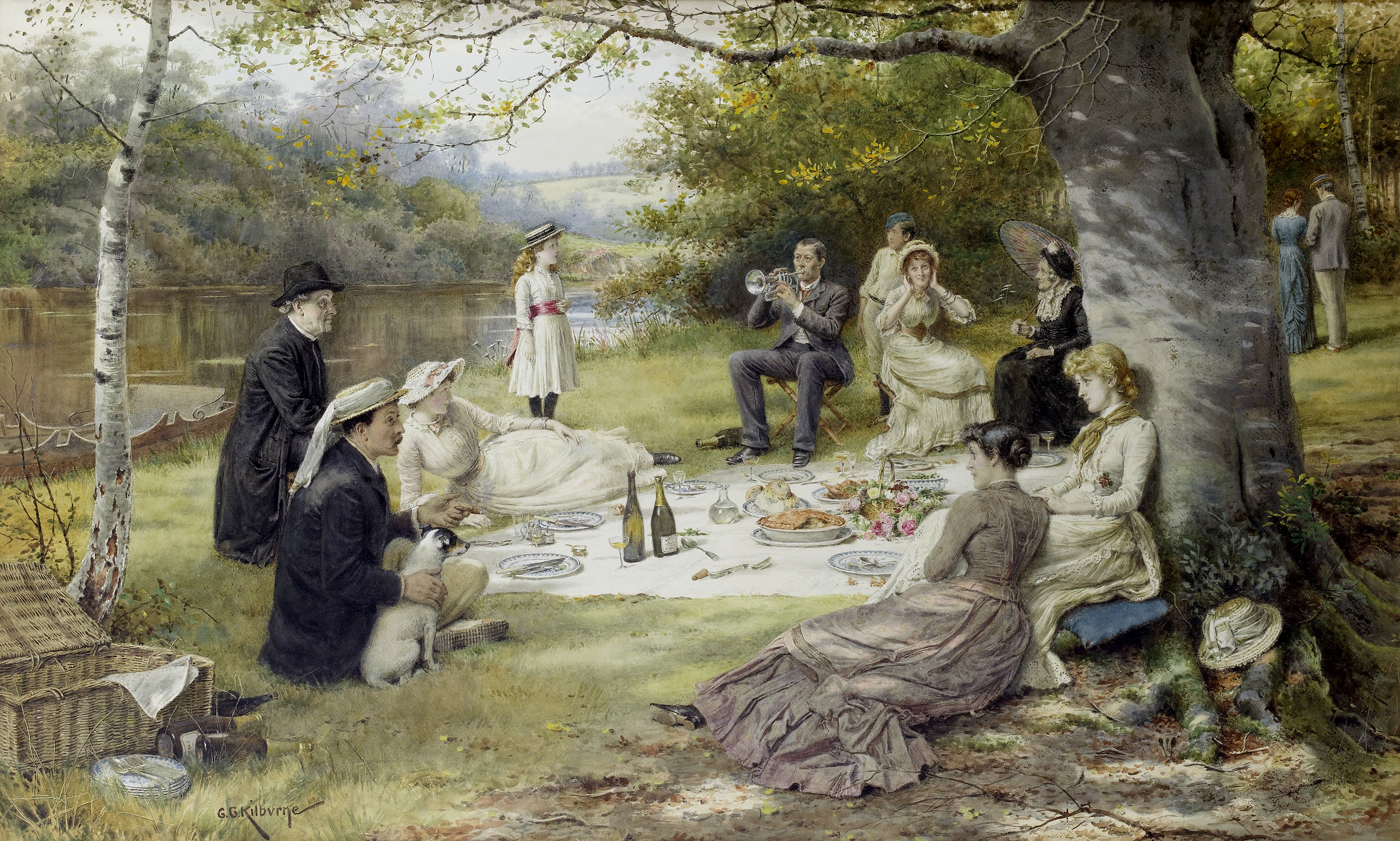 The Picnic. Signed G.G.Kilburne. Watercolour heightened with touches of white, 66.5 x 110 cm